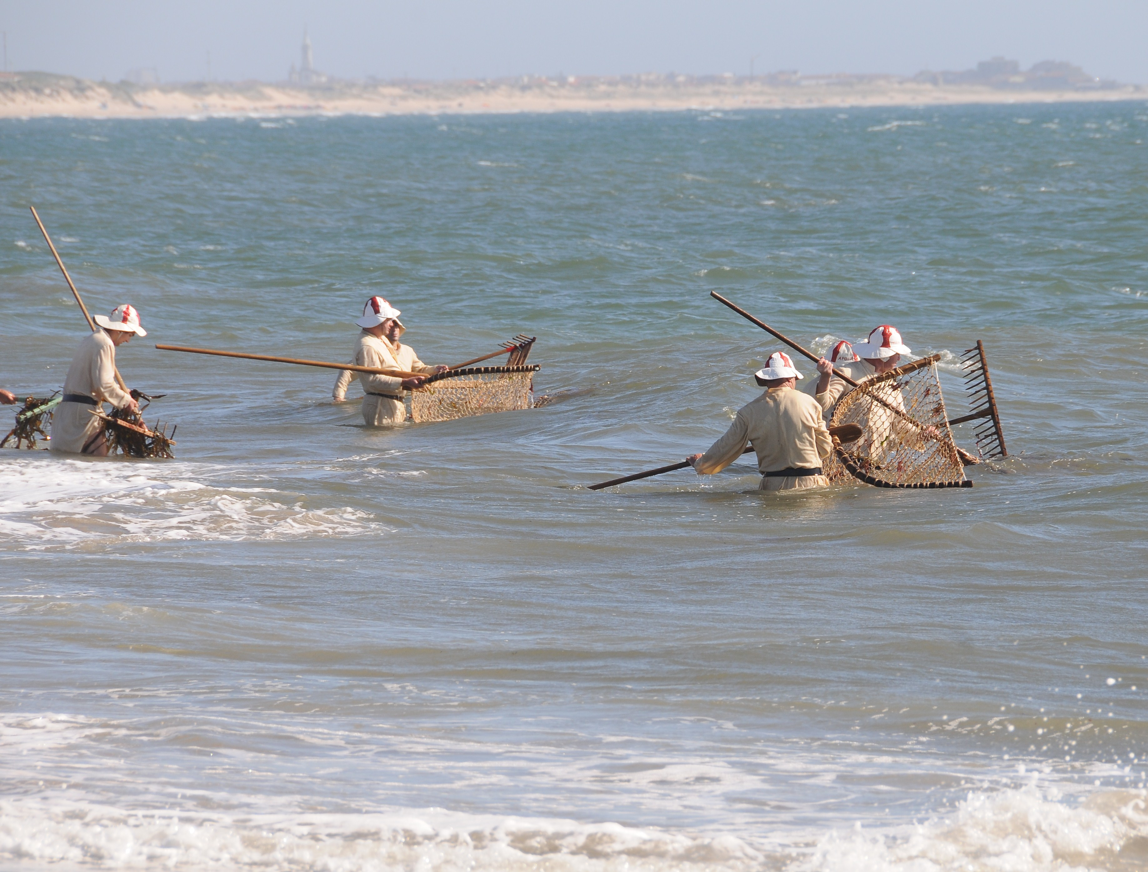 Traditional collecting of seaweed, used as fertilizer, in Apulia Esposende, Portugal.